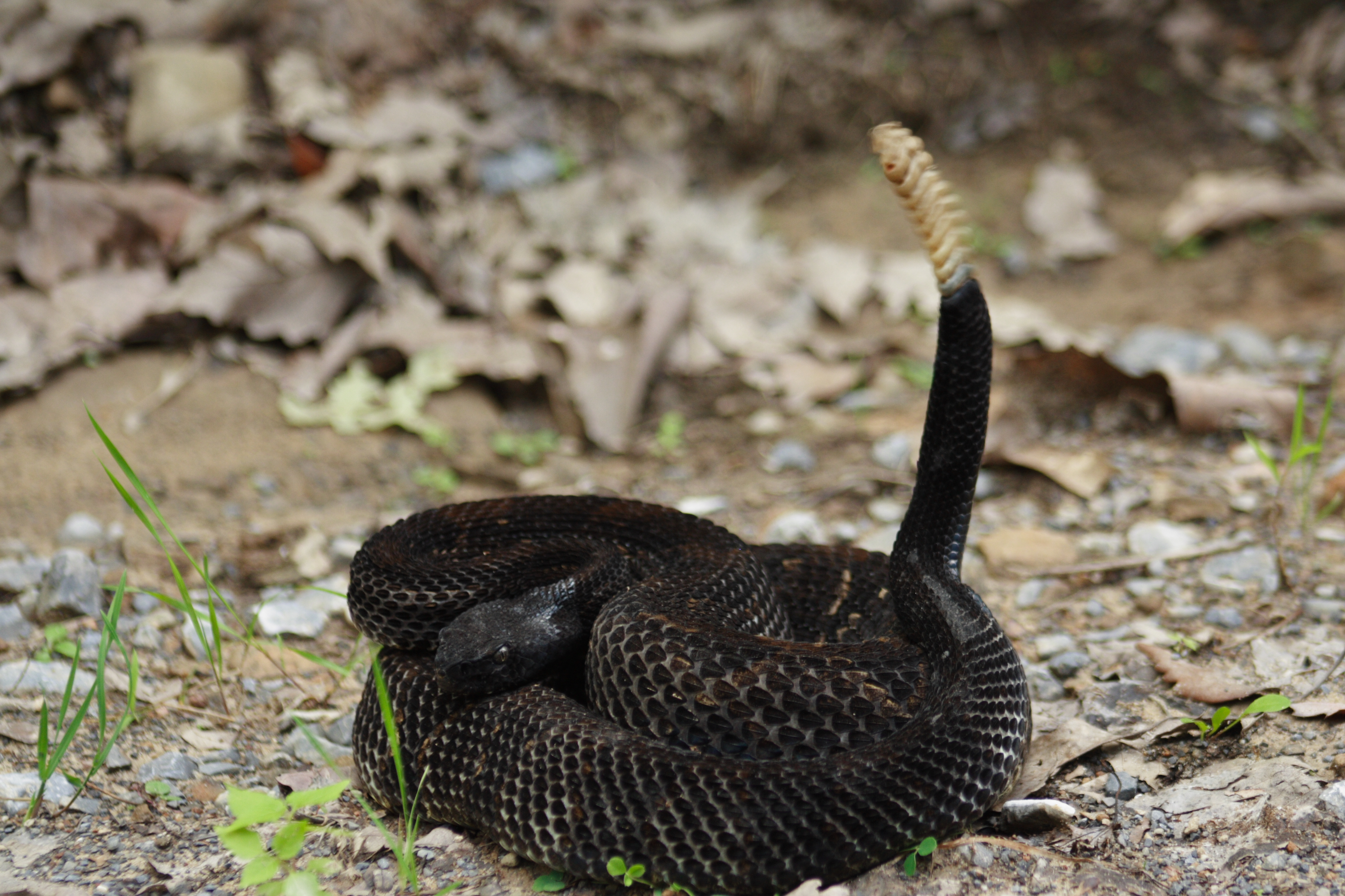 Timber Rattlesnake in north-central Pennsylvania.